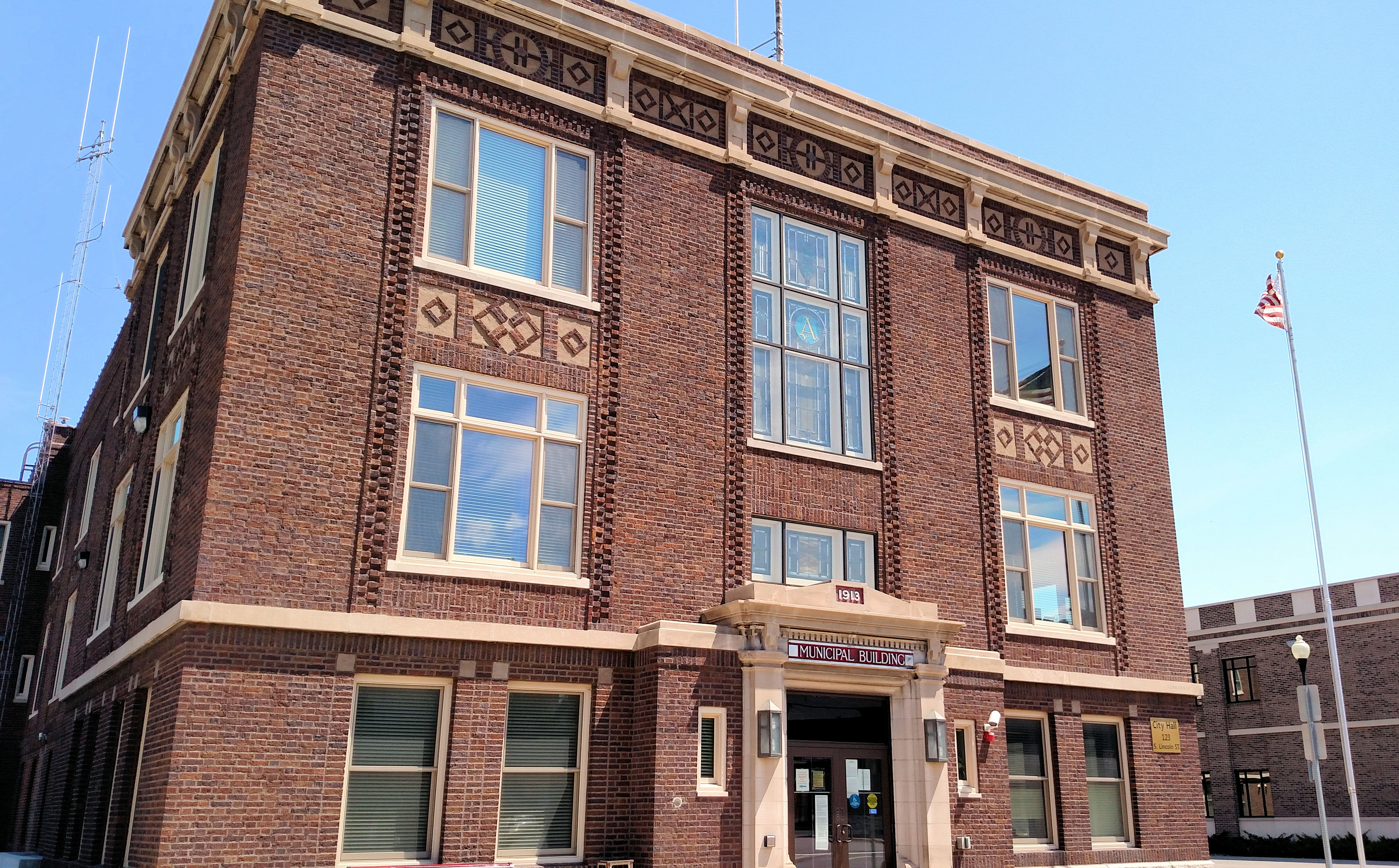 Aberdeen, South Dakota Municipal Building/City Hall